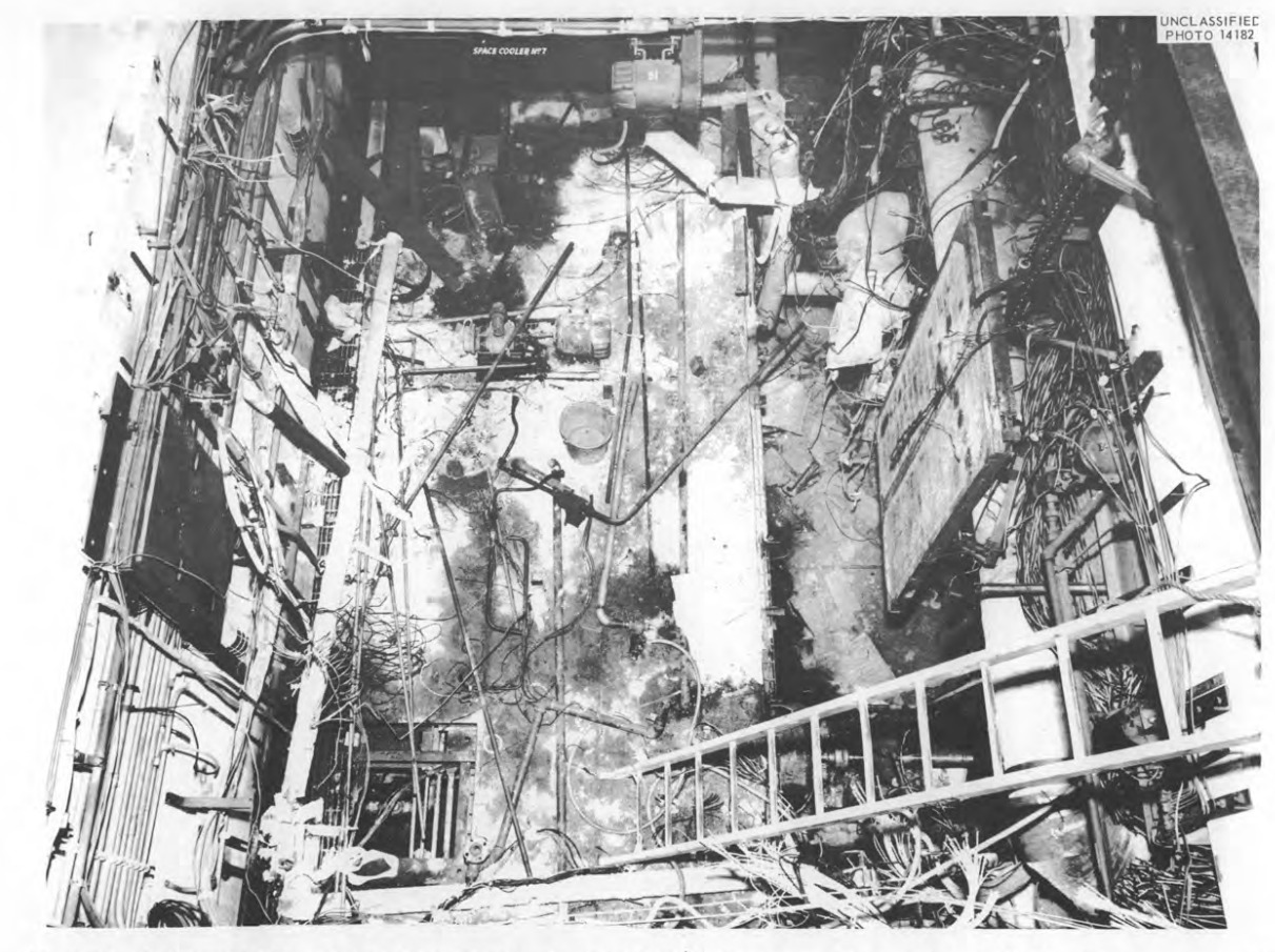 Aircraft Reactor Experiment heat exchanger pit after removal of sodium system pumps and heat exchangers and lines. Note lead shield used to protect workers from fuel system radiation